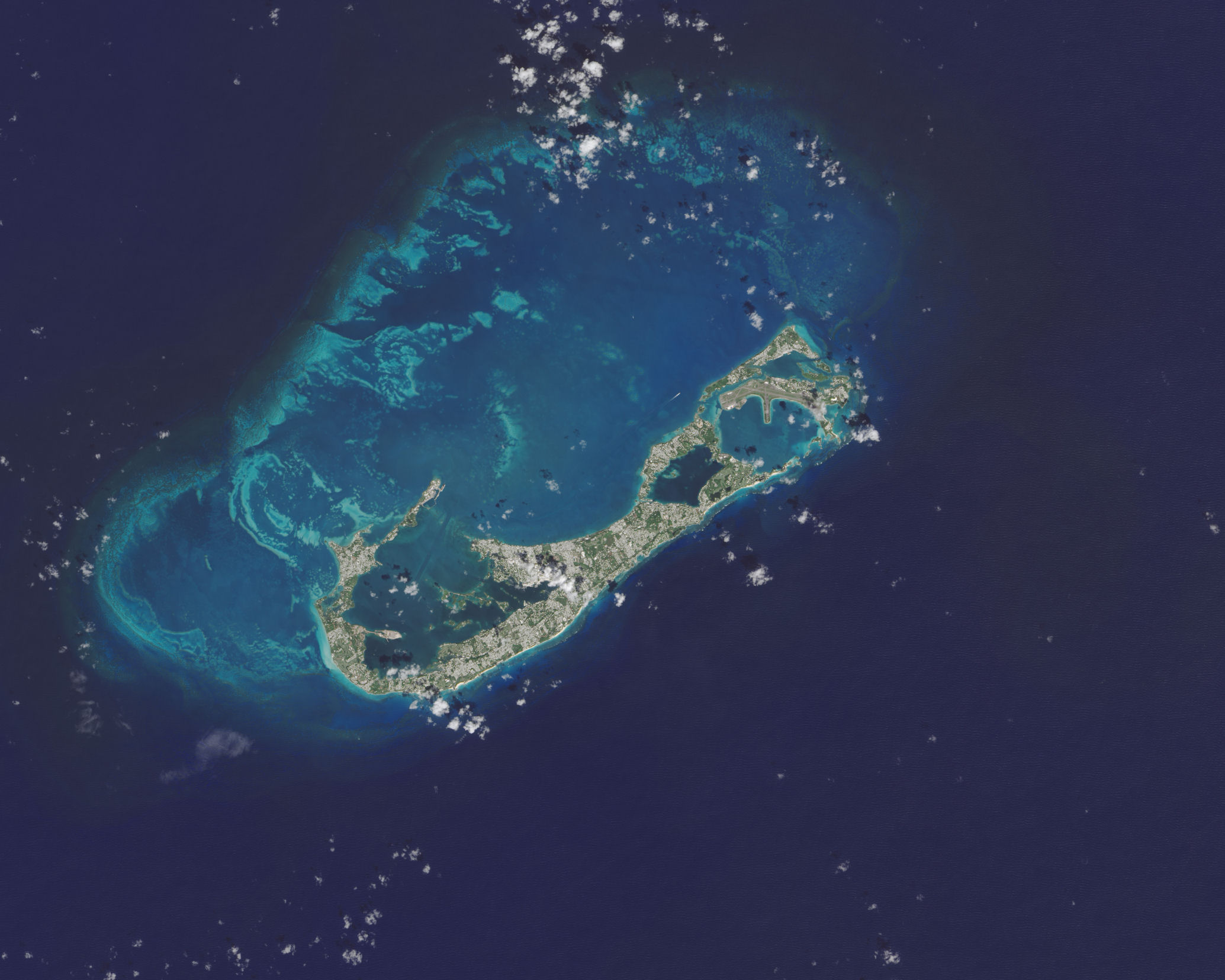 Bermuda seen by the Operational Land Imager on the Landsat 8 satellite.